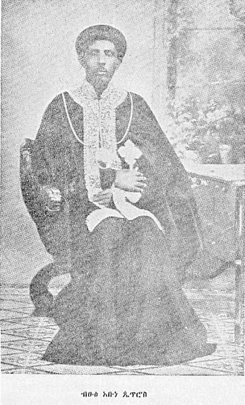 Photograph of St. Abune Petros before July 29,1936.